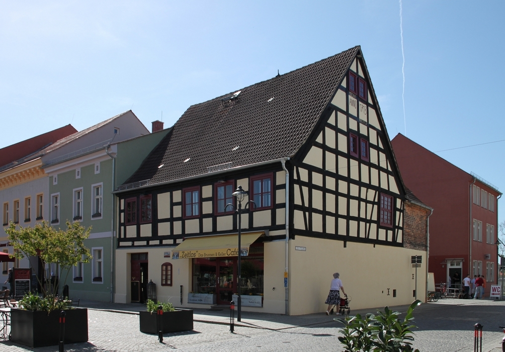 This photo shows the timber framed house "Cafe Zeitlos" in Lübbenau. The house, built 1713, is the oldest surviving house in Lübbenau.